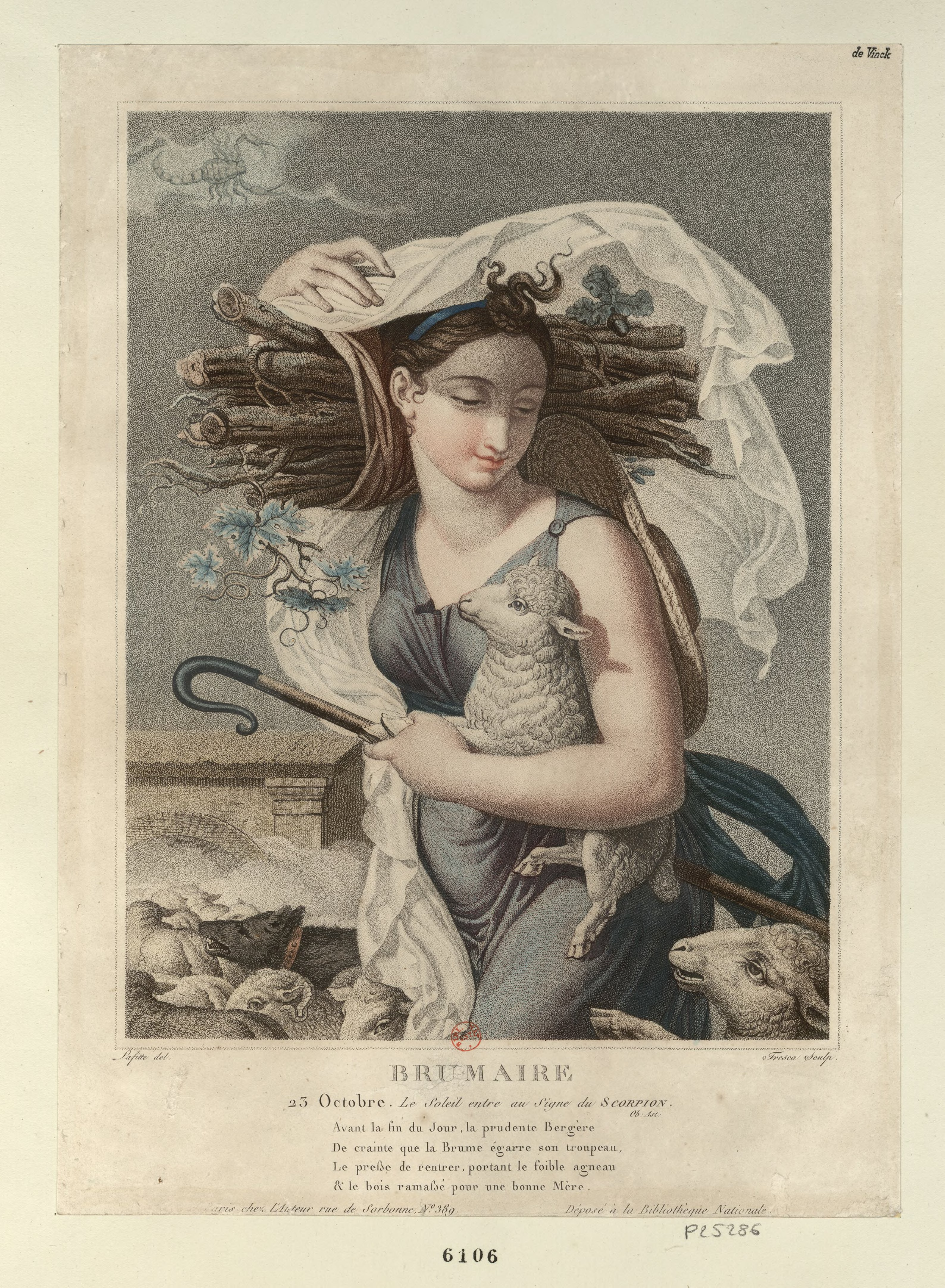 The French Republican Calendar -- Brumaire